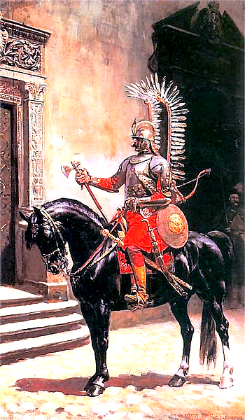 Polish-Belarusian (Polish-Lithuanian) Hussars, Wacław Pawliszak (1866–1905) Беларуская (тарашкевіца): Крылаты гусар Рэчы Паспалітай, Wacław Pawliszak (1866–1905)